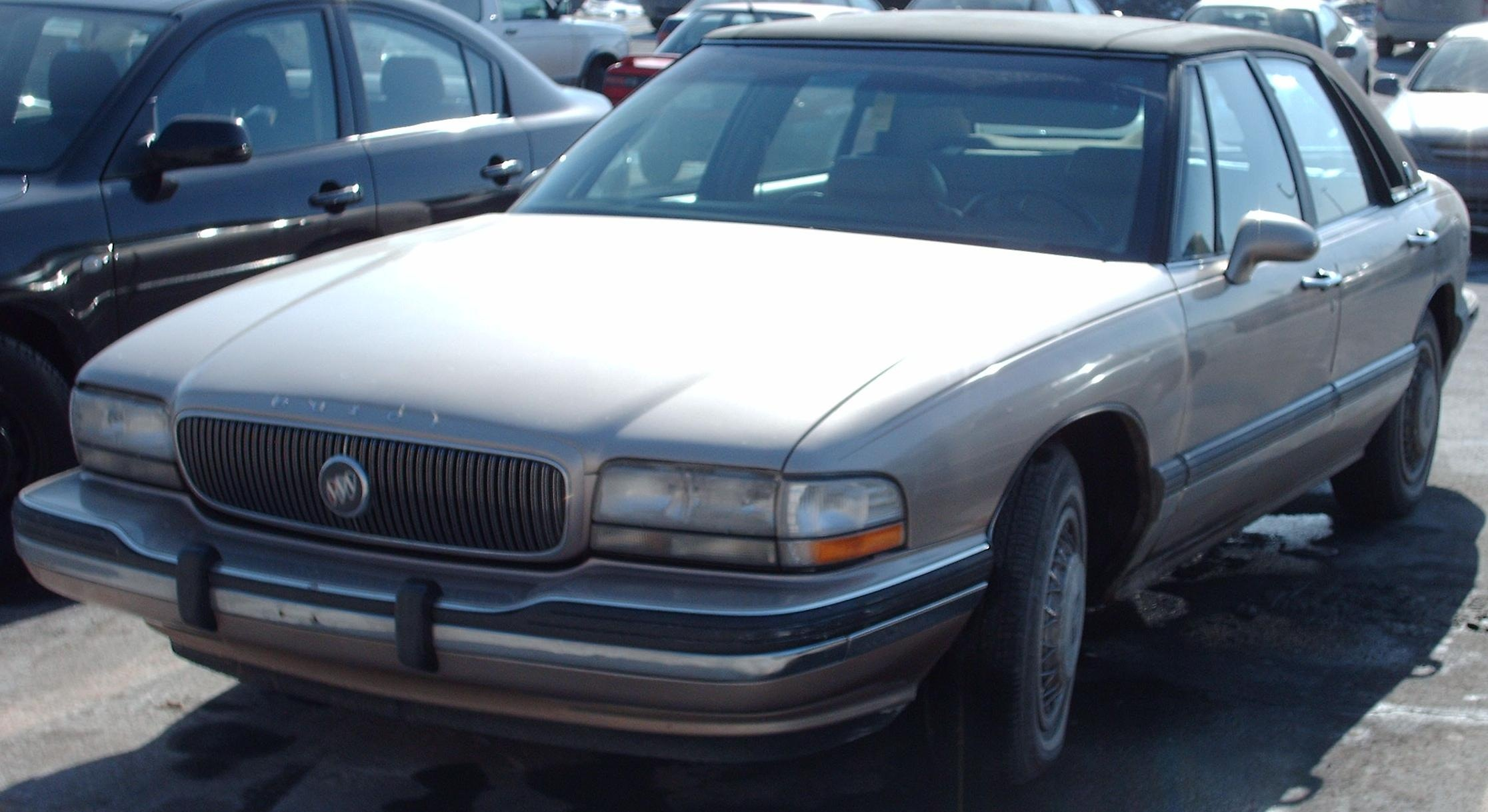 1994-1996 Buick LeSabre photographed in Montreal, Quebec, Canada.